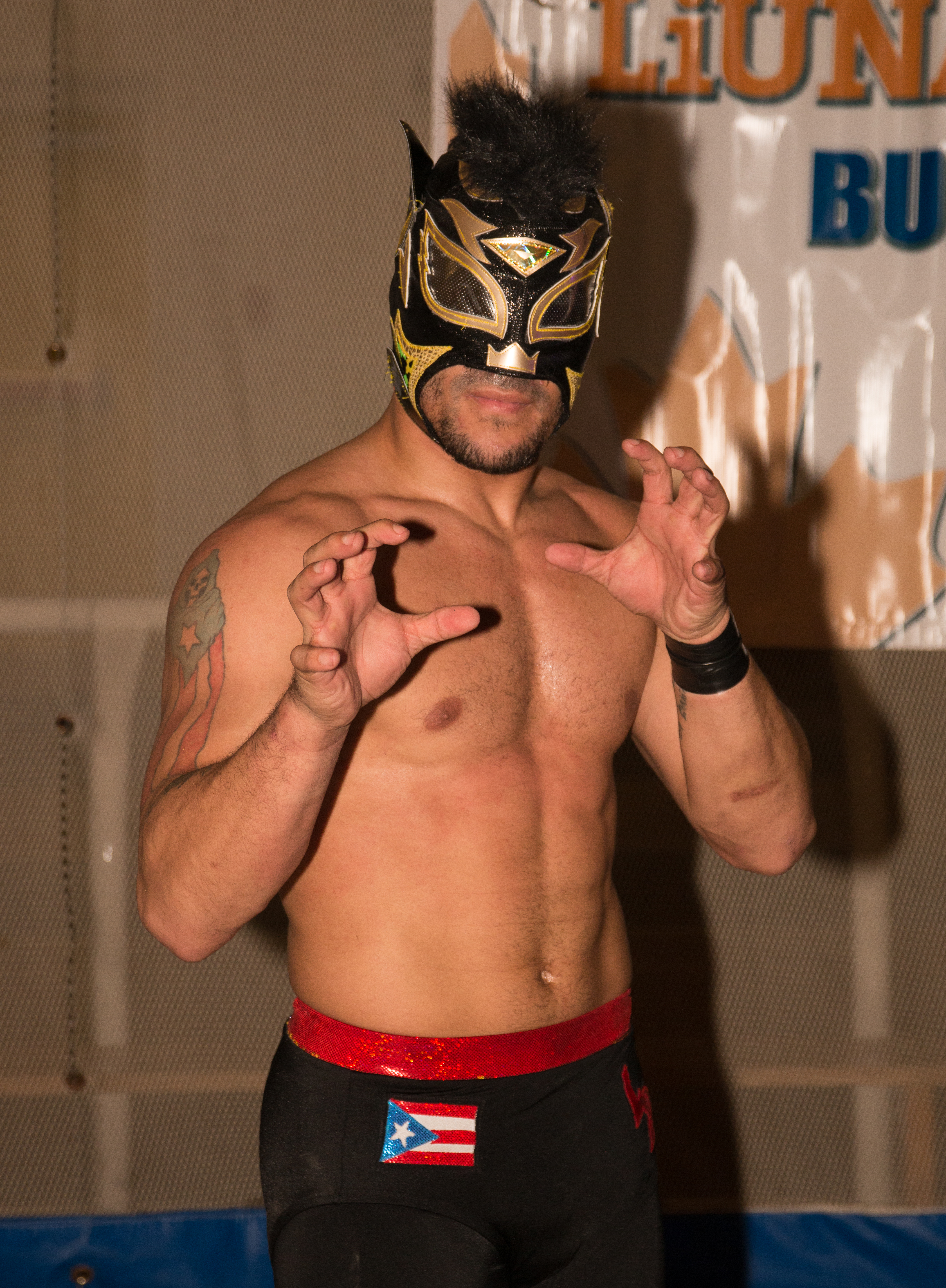 Independent wrestler Lince Dorado at a LuchaTO show at Variety Village in Toronto